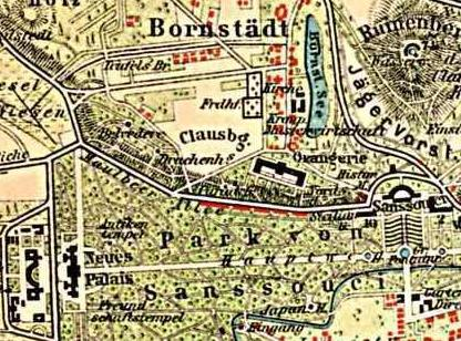 Extract of a map of Potsdam, showing Klausberg and the Orangerie